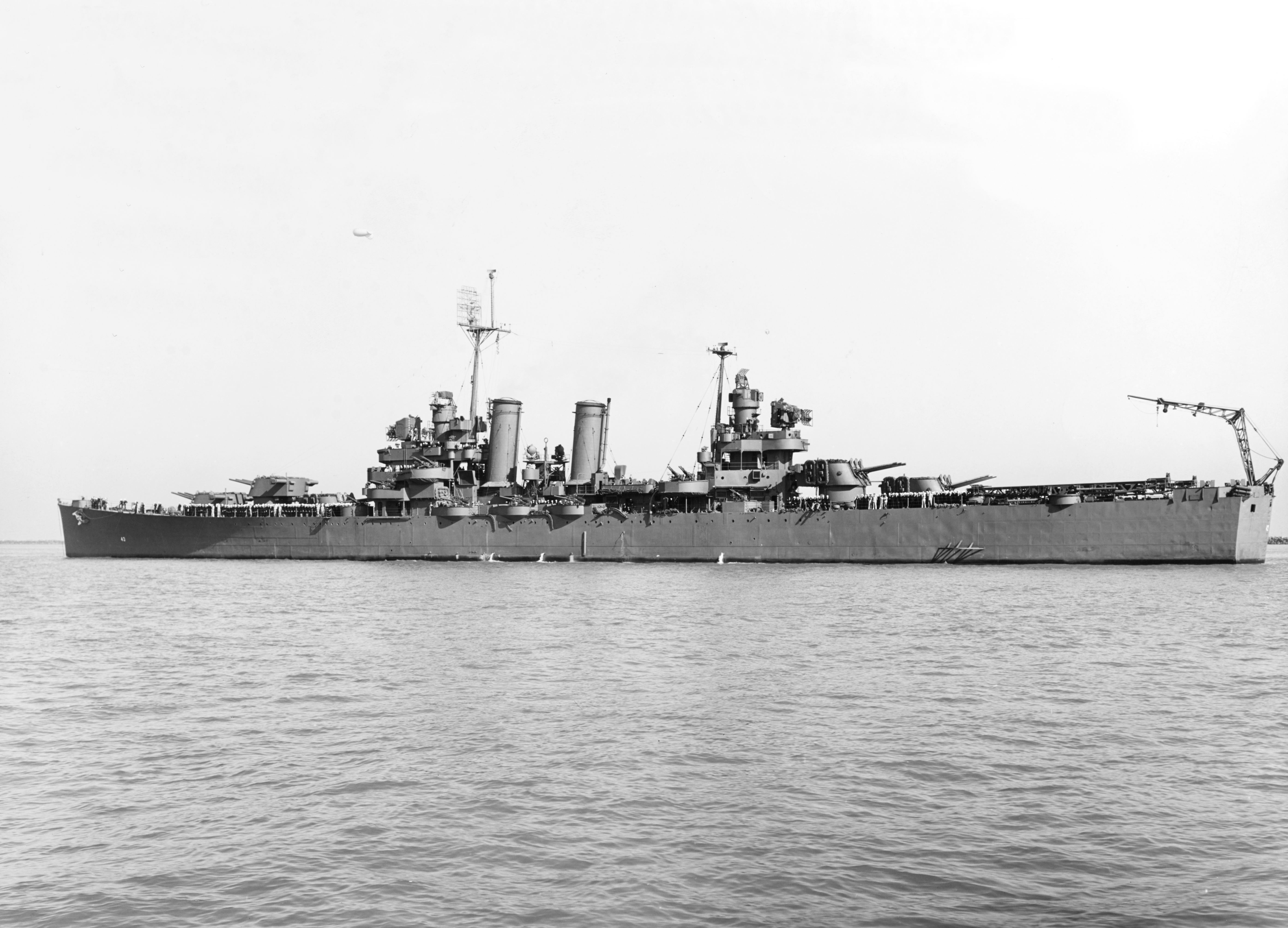 The U.S. Navy light cruiser USS Nashville (CL-43) off the Mare Island Naval Shipyard, California (USA), on 4 August 1943.